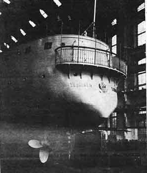 Канонерская лодка «Хивинец», спущенная на воду 28 апреля с. г. из Нового Адмиралтейства в Петербурге перед спуском. По фот. К.Булла авт. Нивы